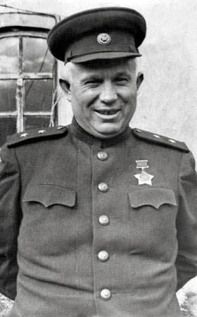 Nikita Khrushchev in WW2